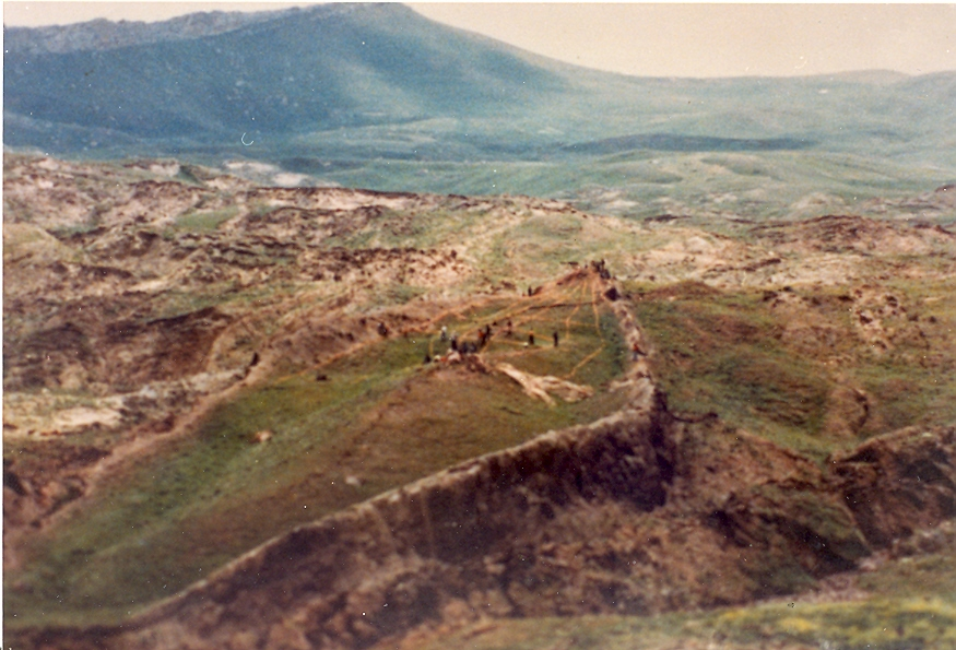 Durupınar – Alleged landing site of Noah's Ark near Dogubayazit, Turkey, 17 miles south of Mount Ararat. Courtesy Dr. Lorence G. Collins.